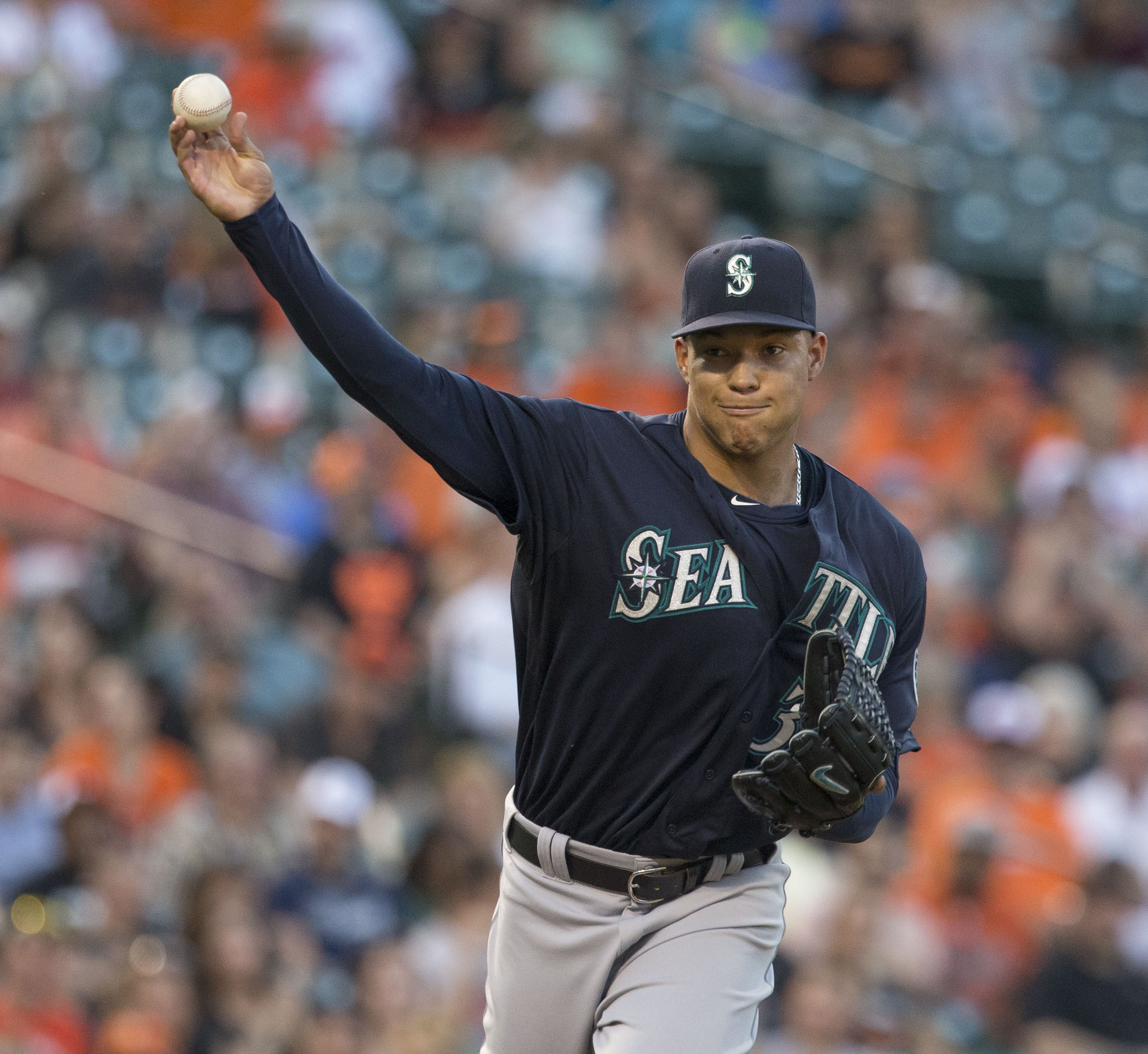 Mariners at Orioles 5/19/15